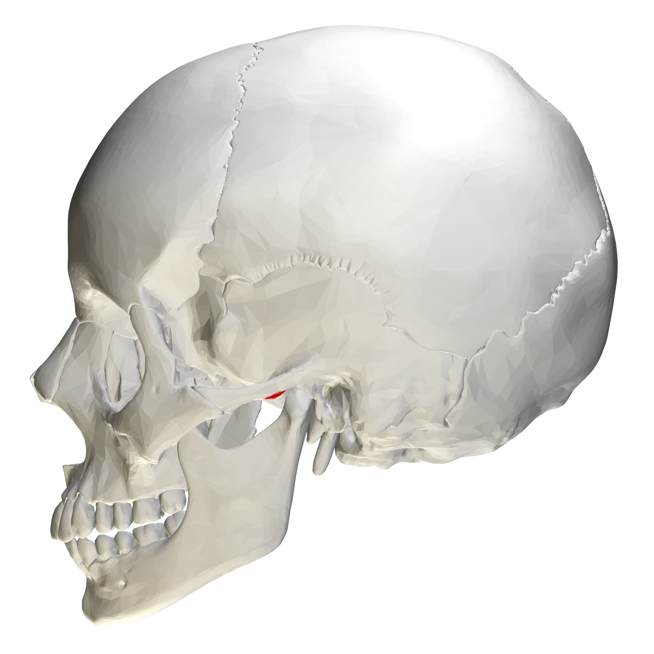 Articular tubercle. Shown in red.